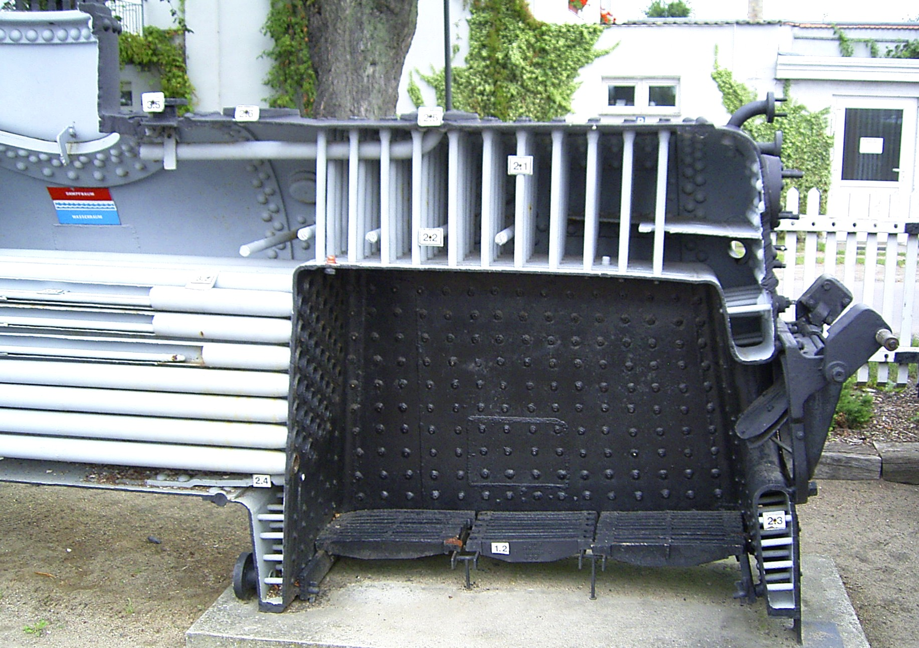 Back part from the model of a 1932 steam locomotive boiler, on display in the Molli Museum in the German town of Kühlungsborn at the Baltic Sea coast.